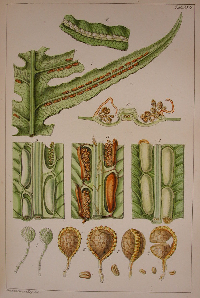 "Woodwardia radicans" in William Jackson Hooker (1785-1865)